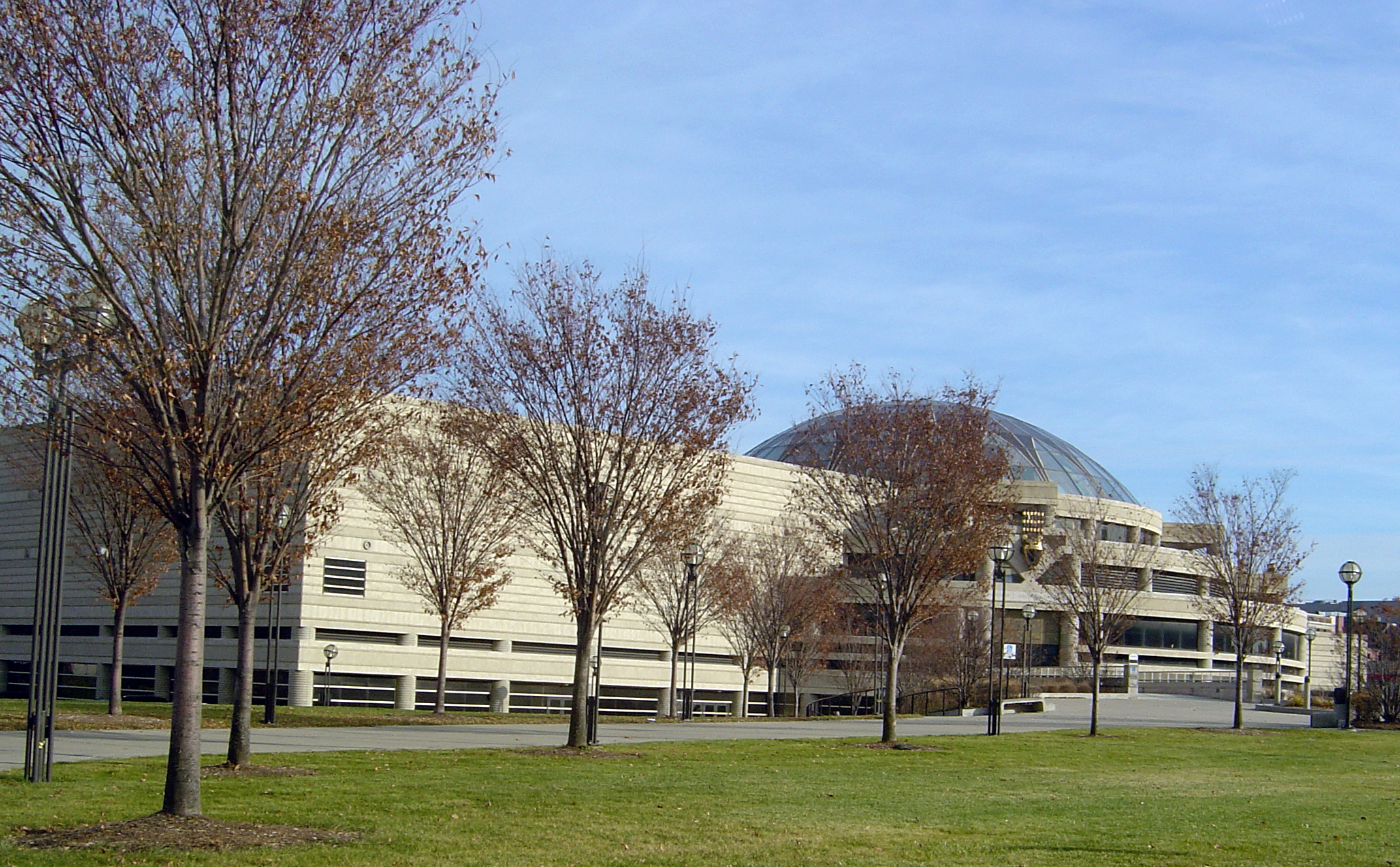 The Charles H. Wright Museum of African American History — in Detroit, Michigan. Contributing property to the Cultural Center Historic District.